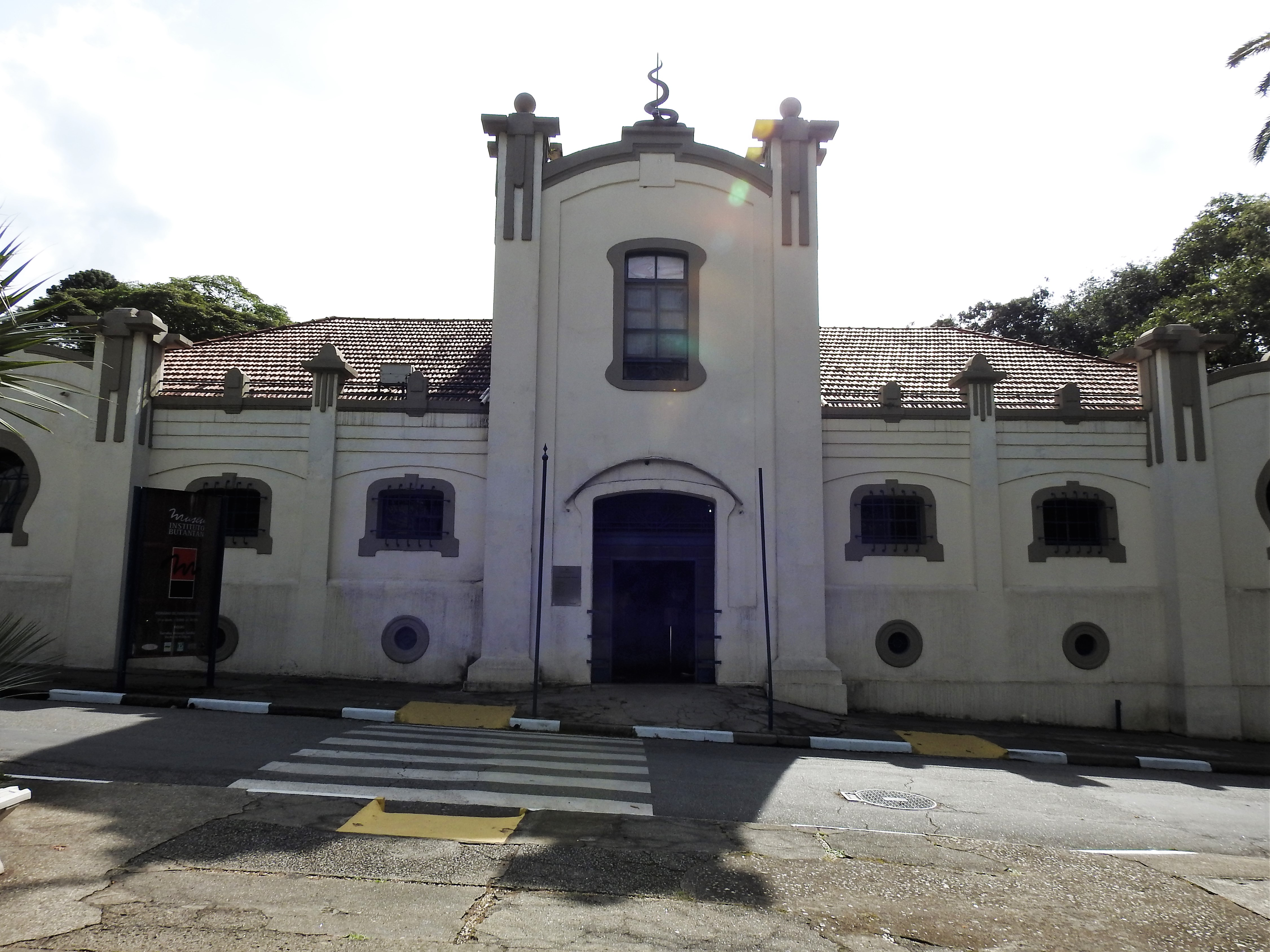 Instituto Butantan is a Brazilian biologic research center affiliated to the São Paulo State Secretariat of Health. Considered one of the major scientific centers in the world,[2] Butantan is the largest immunobiologicals and biopharmaceuticals producer in Latin America (and one of the largest of the world). It is world-renowned for its collection of venomous snakes, including as well venomous lizards, spiders, insects and scorpions. By extracting the reptiles and insects' venoms, the Institute develops antivenoms and medicines against many diseases, which include tuberculosis, rabies, tetanus and diphtheria.